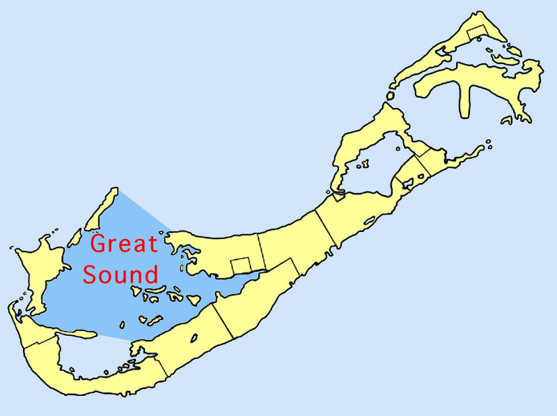 Location map of Great Sound, Bermuda